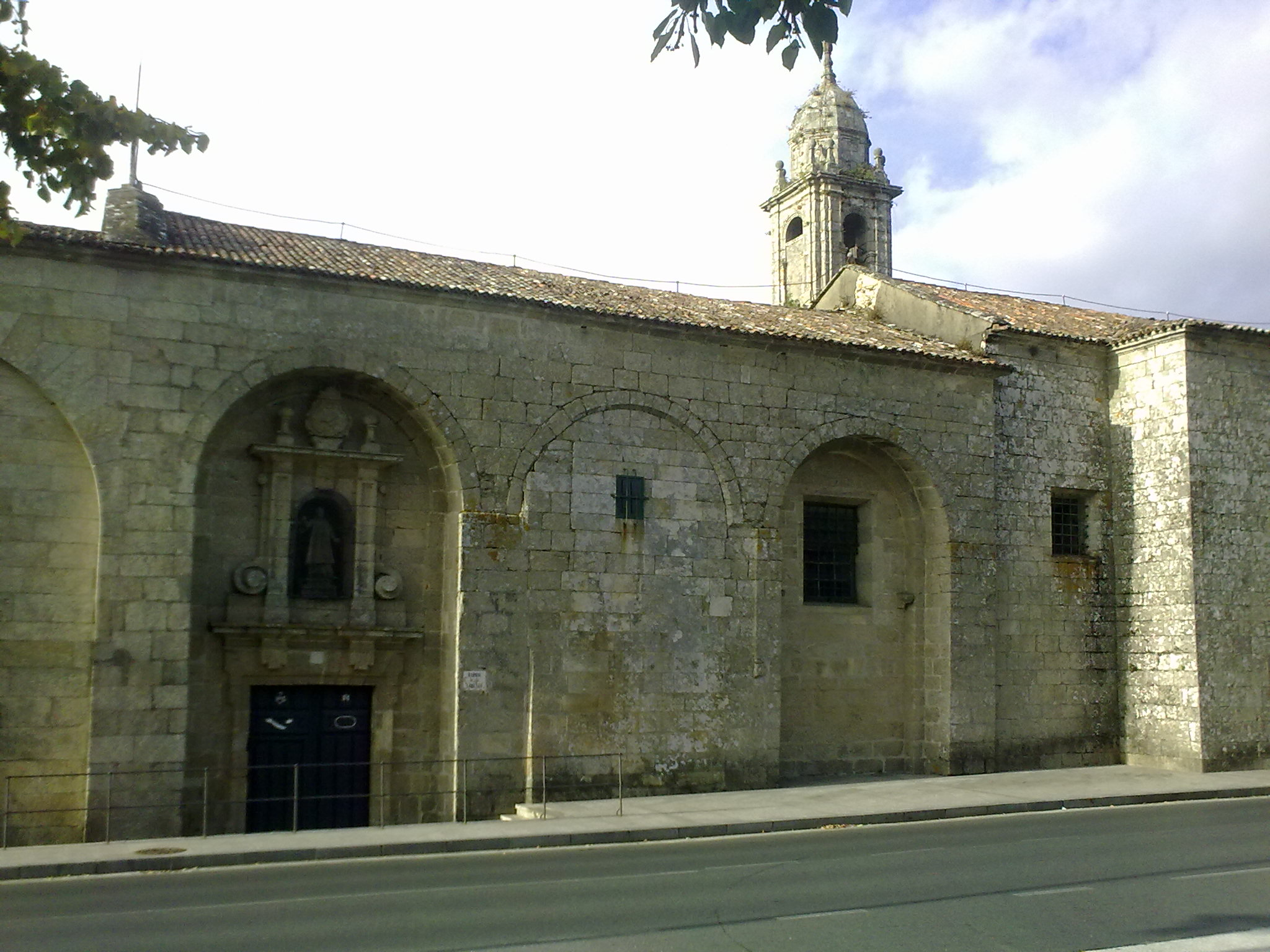 Saint Lawrence of Trasouto Monastery, in Santiago de Compostela, Galicia, Spain. According to Father Gonzaga, Archbishop Pedro Muñiz, accused of necromancy, was confine in this building, by order of the Pope Honorius II.